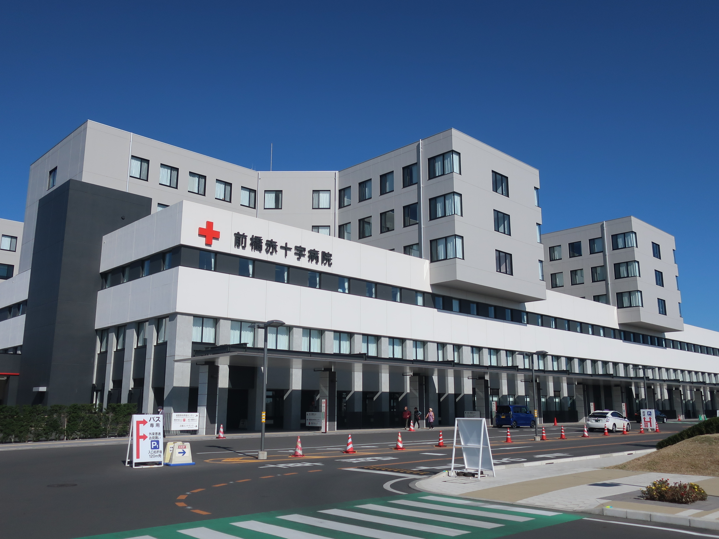 Maebashi Red Cross Hospital